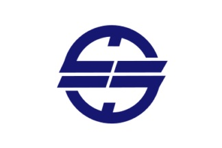 Flag of Ranzan Saitama